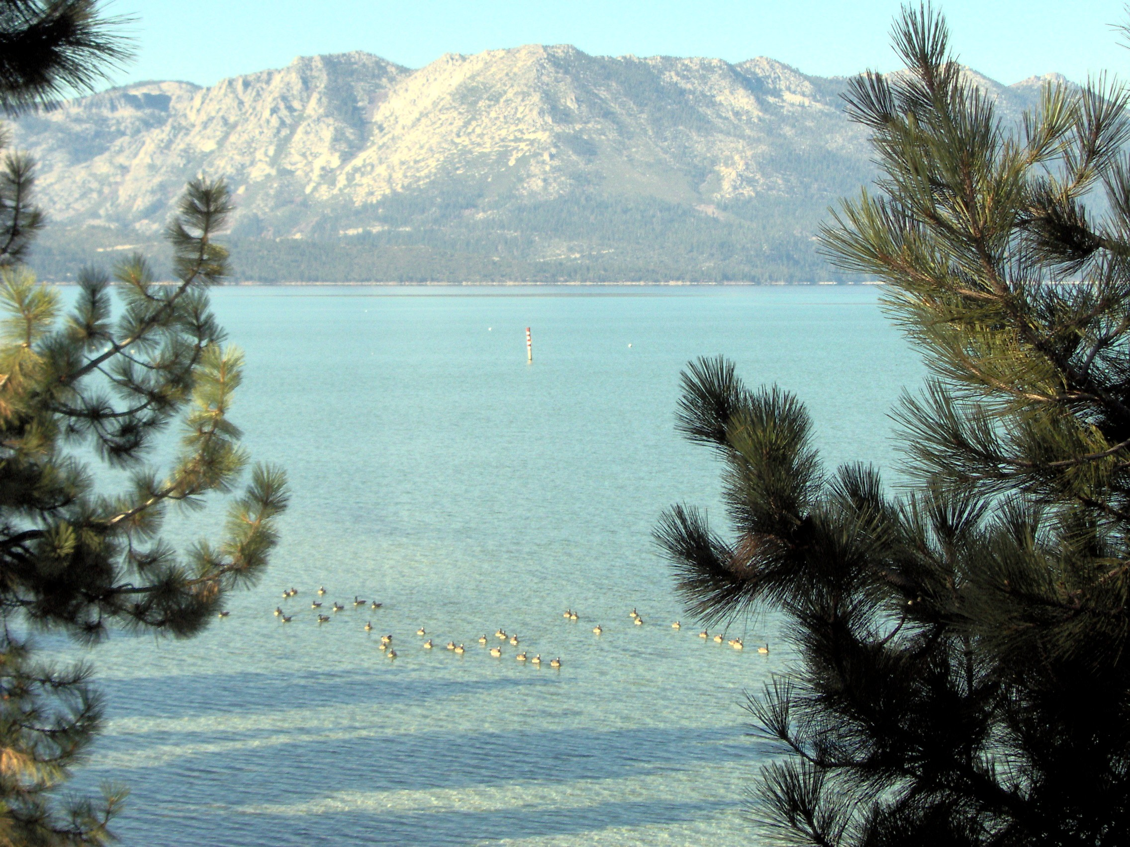 Fall 2007 view of south Lake Tahoe taken from Lake Tahoe Boulevard, South Lake Tahoe, CA.